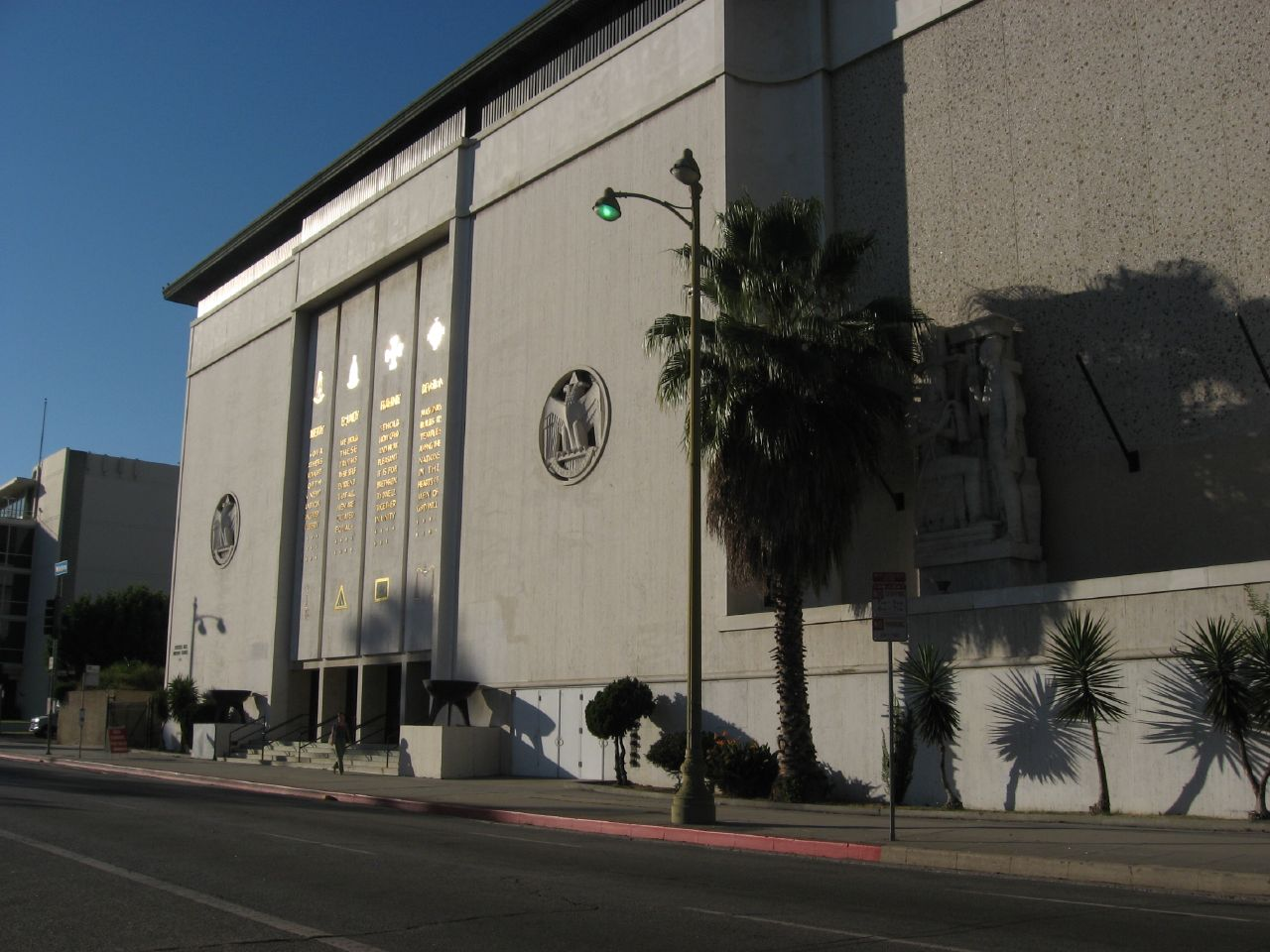 Wilshire Boulevard is one of the principal east-west arterial roads in Los Angeles, California. It was named for Henry Gaylord Wilshire (1861–1927), an Ohio native who made and lost fortunes in real estate, farming, and gold mining. Henry Wilshire initiated what was to become Wilshire Boulevard in the 1890s by clearing out an unassuming twelve-hundred foot path in his barley field. The road first appeared on a map under its present name in 1895. Running 15.83 miles (25.48 km) from Grand Avenue in Downtown Los Angeles to Ocean Avenue in the City of Santa Monica, Wilshire Boulevard is densely developed throughout most of its span, connecting five of Los Angeles's major business districts to each other, as well as Beverly Hills. Many of the post-1956 skyscrapers in Los Angeles are located along Wilshire. One particularly famous stretch of the boulevard between Fairfax and Highland Avenues is known as the Miracle Mile. Many of Los Angeles' largest museums are located there. The area just to the east of that, between Highland Avenue and Wilton Place, is referred to as the "Park Mile."